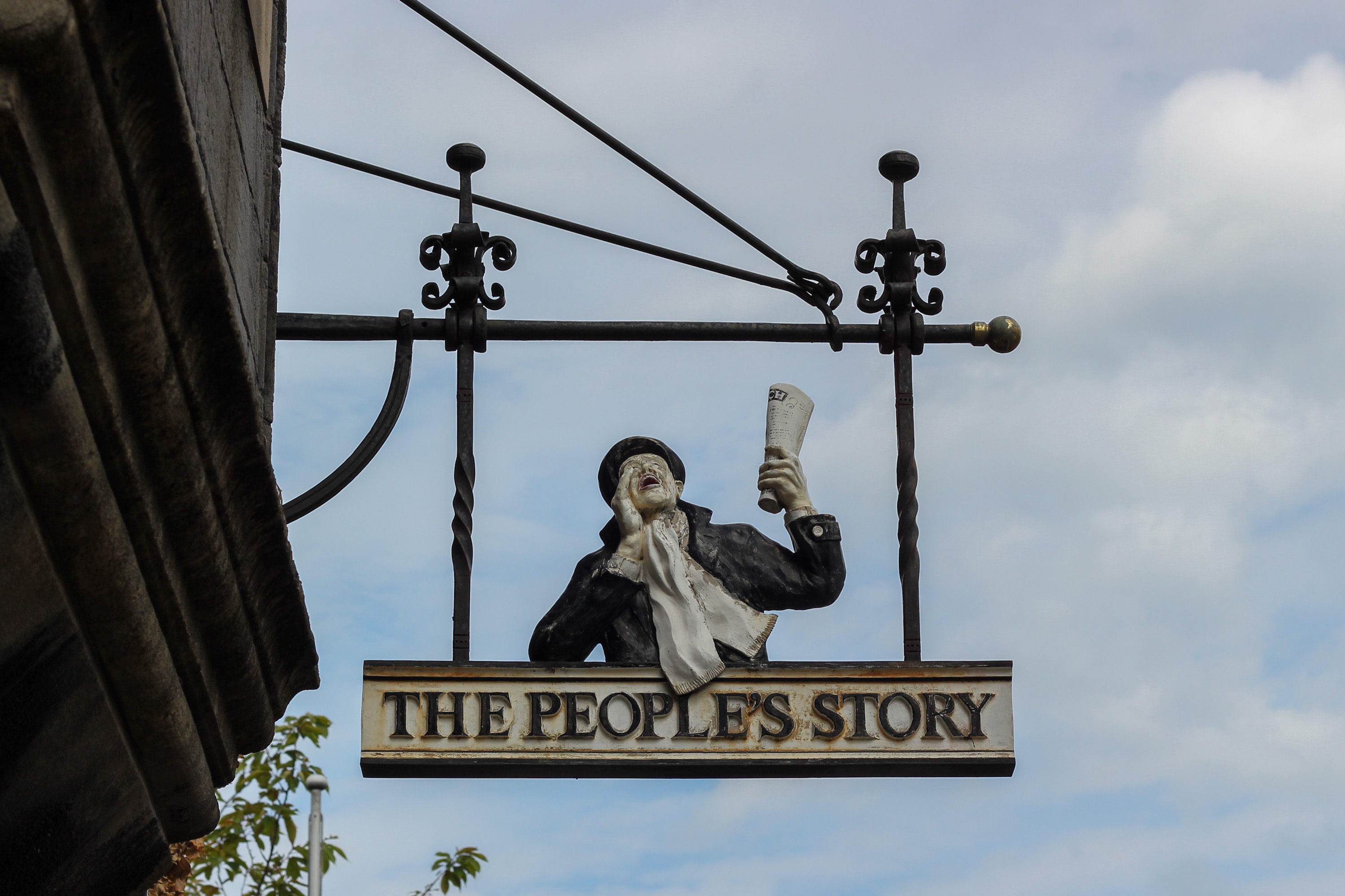 Sign outside the People's Story Museum, Edinburgh, Scotland.